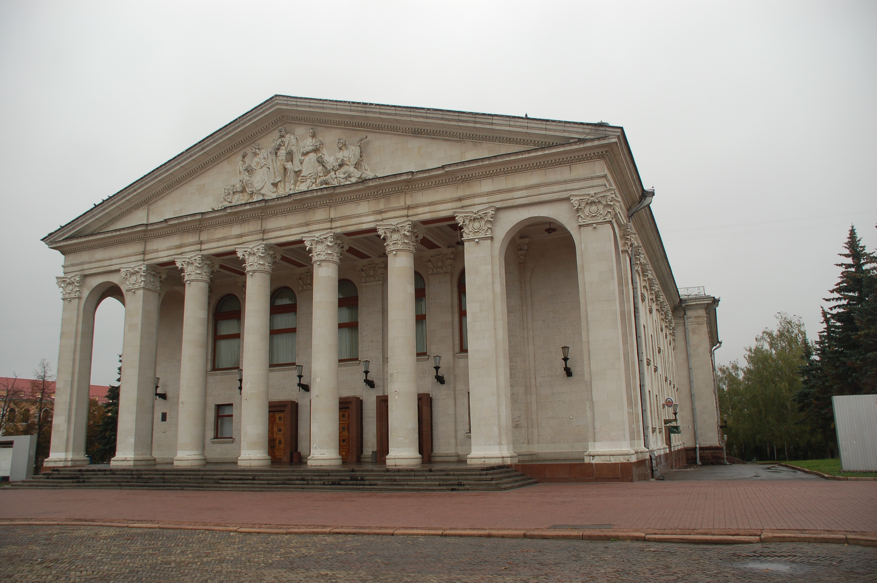 The Taras Shevchenko theatre at the Red Square, in the centre of Chernihiv